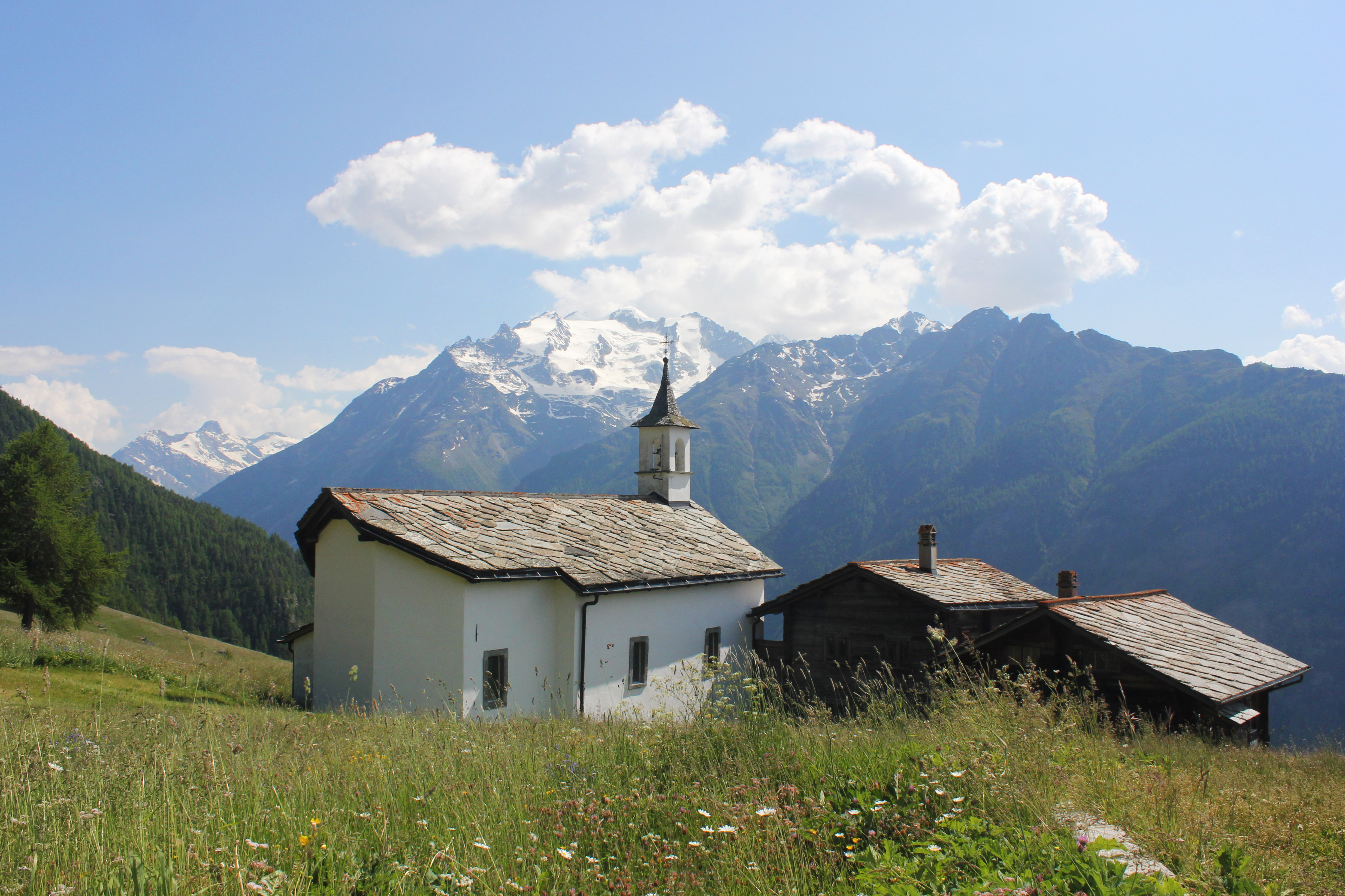 St. Anna Chapel in Gspon, Valley, Switzerland, built in 1691.